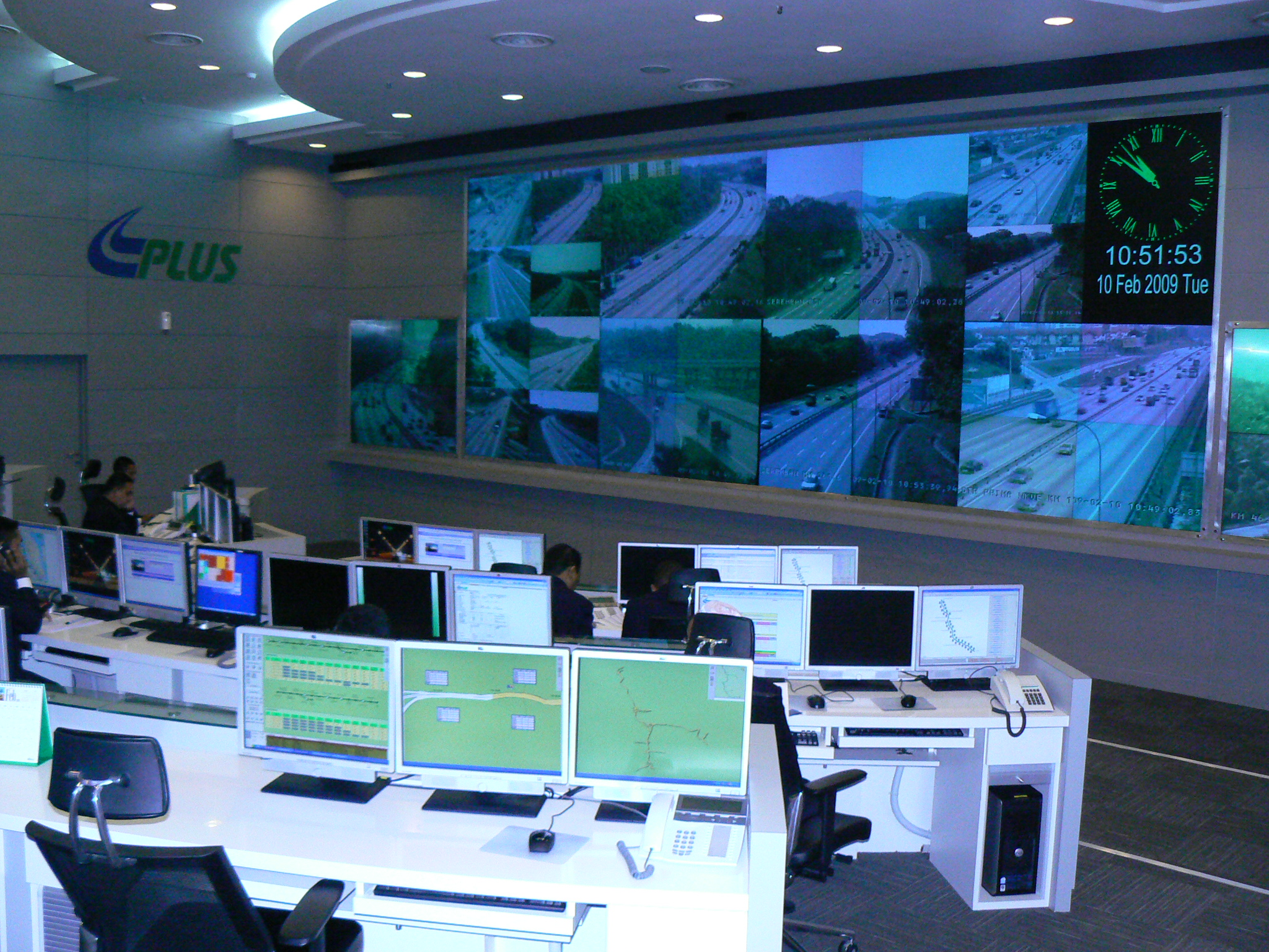 PLUS Traffic Monitoring Center (TMC) provided by Teras Teknologi